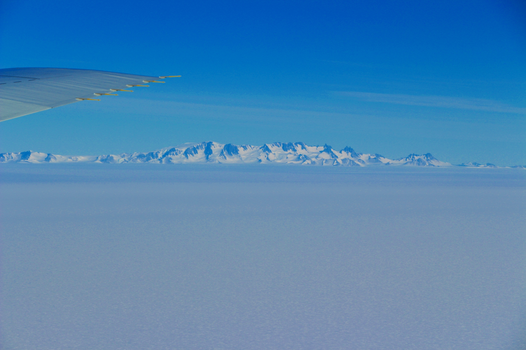 Dufek Massif as seen in the distance (NASA/John Sonntag)